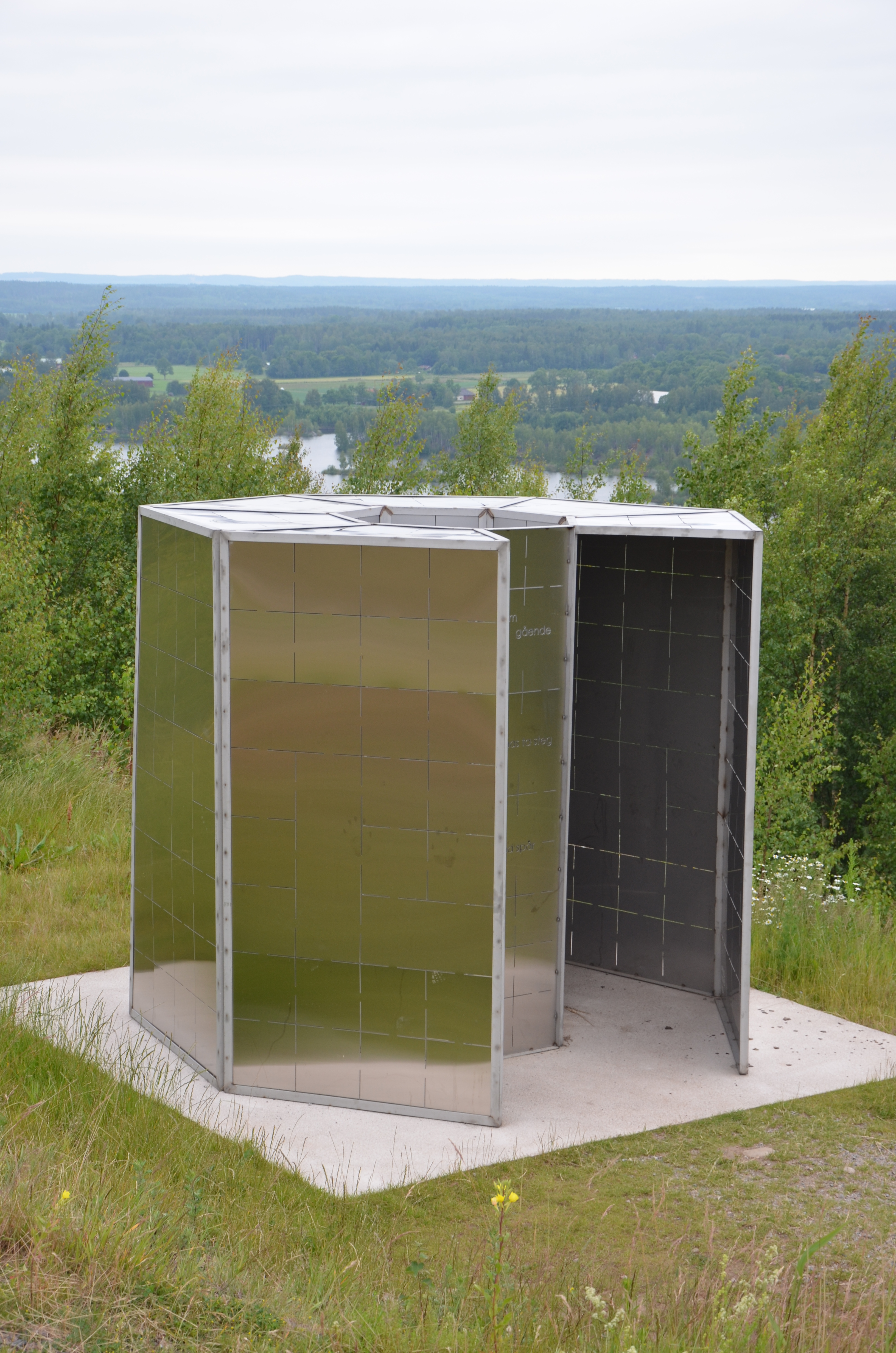 Corinne Ericson´s Heptagon, 2011, Konst på Hög, Kumla, Sweden